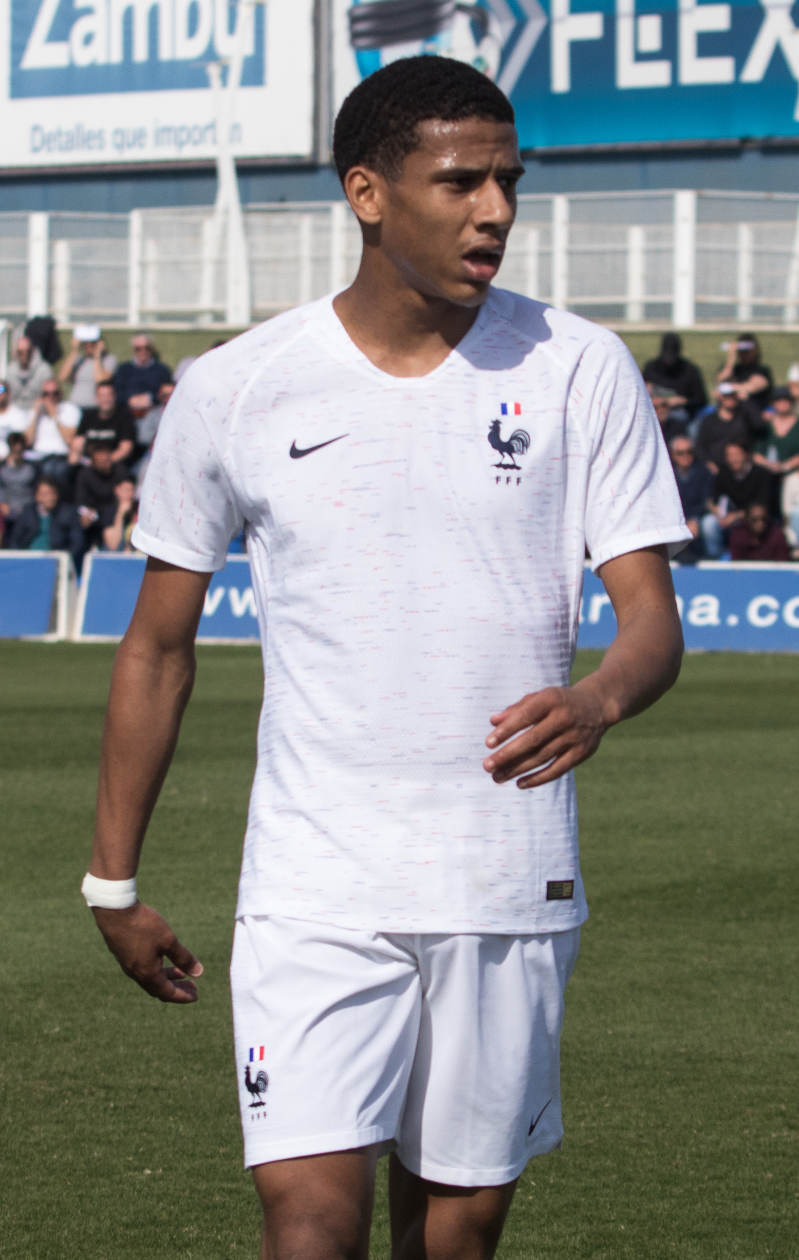 USA U20 v France U20, 22 March 2019